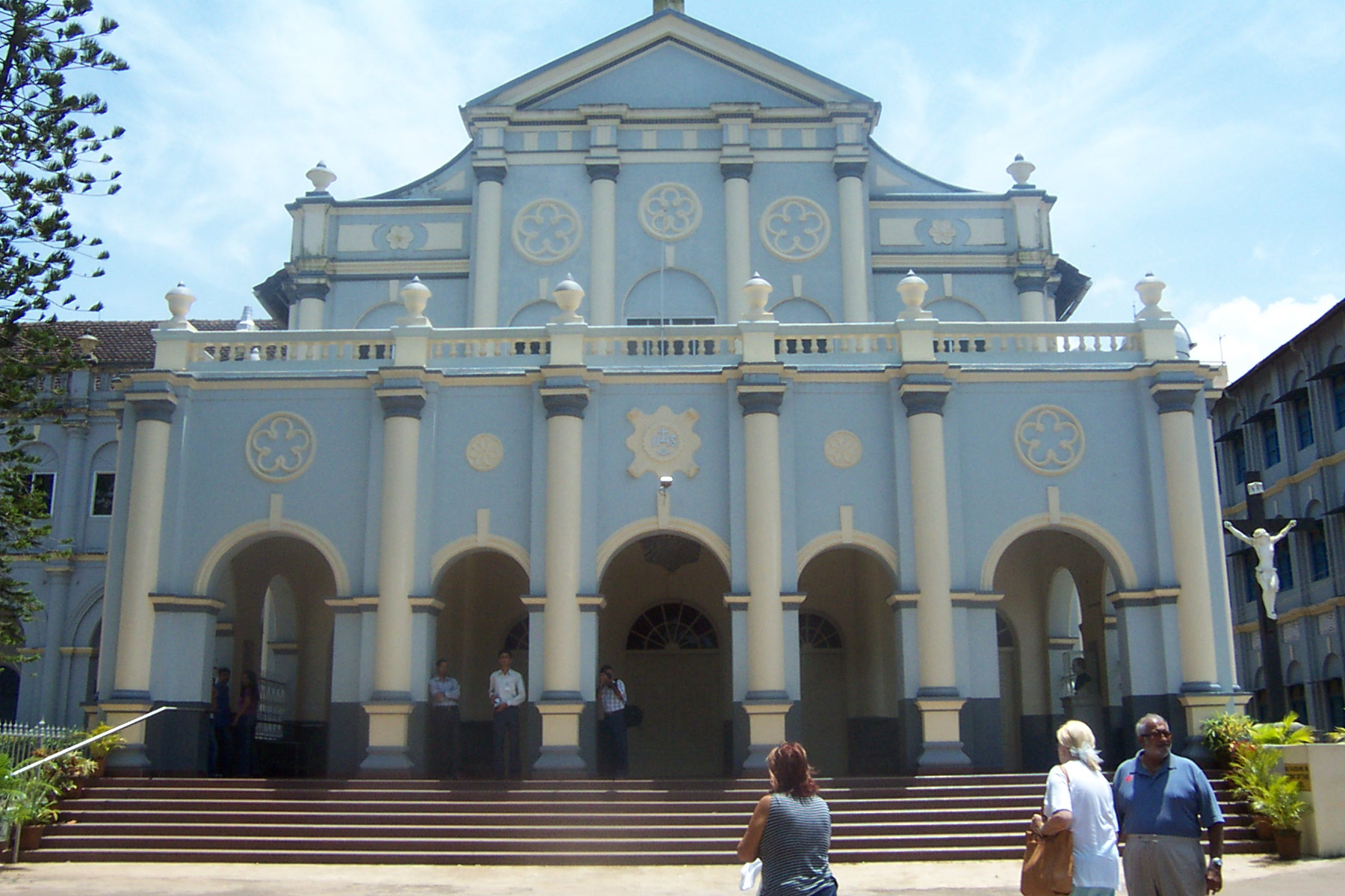 St. Aloysius ChapelSt. Aloyisus' Church Mangalore